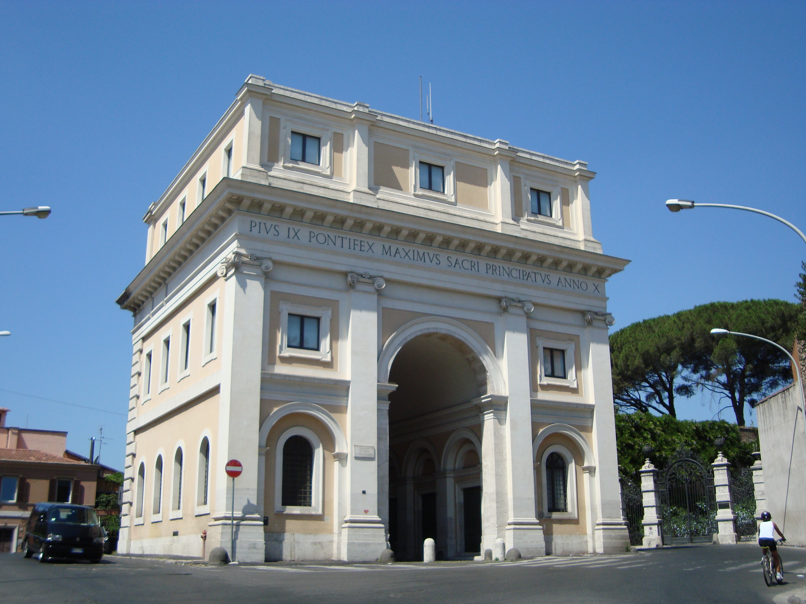 Porta San Pancrazio in Rome, internal view